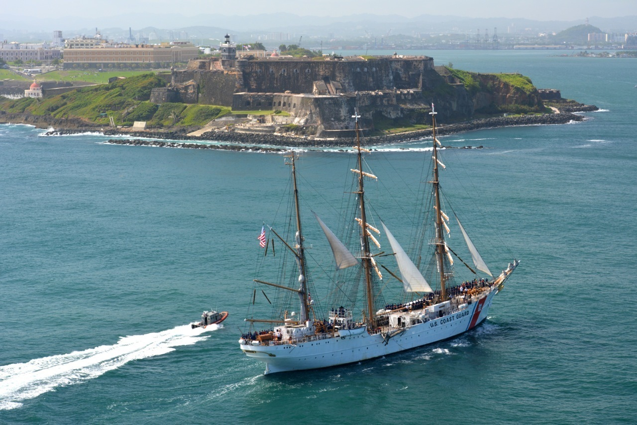 Coast Guard Barque Eagle sailed into San Juan, Puerto Rico, May 21, 2014, for a four-day port call, as part of the school ship's training schedule to sail to the Caribbean, along the East Coast, to Canada, and throughout New England. Following San Juan, Eagle is scheduled to visit Oranjestad, Aruba; Cozumel, Mexico; Miami; Sydney, Canada; St. Johns, Canada; New York; Bourne, Mass.; and Rockland, Maine. Eagle will return to New London City Pier in early August. During these voyages, Eagle will train four different groups of approximately 150 cadets each.